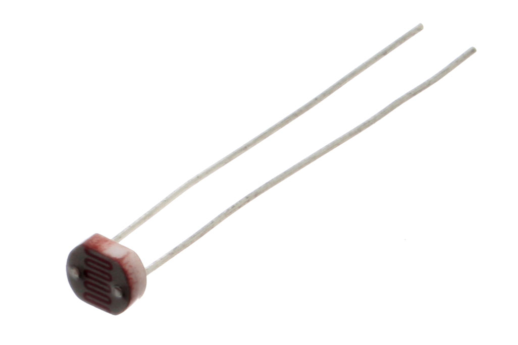 Photoresistor.